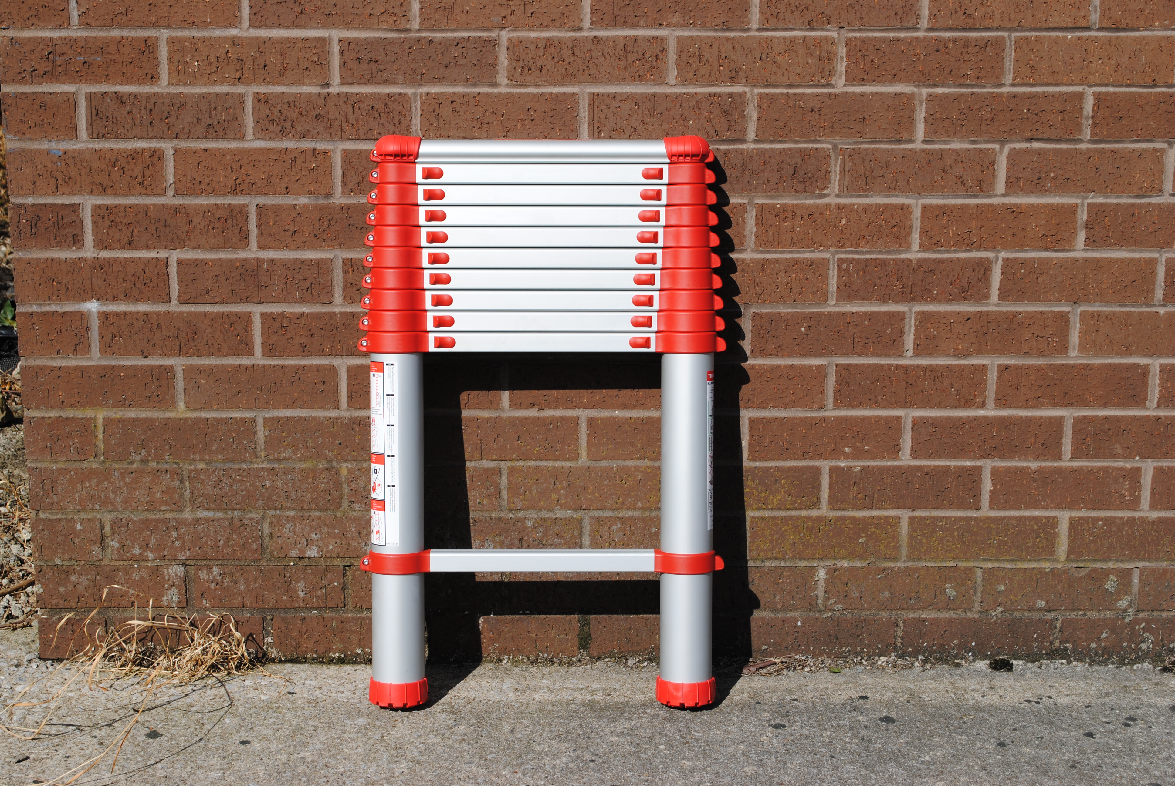 Telesteps telescopic ladder in closed position.